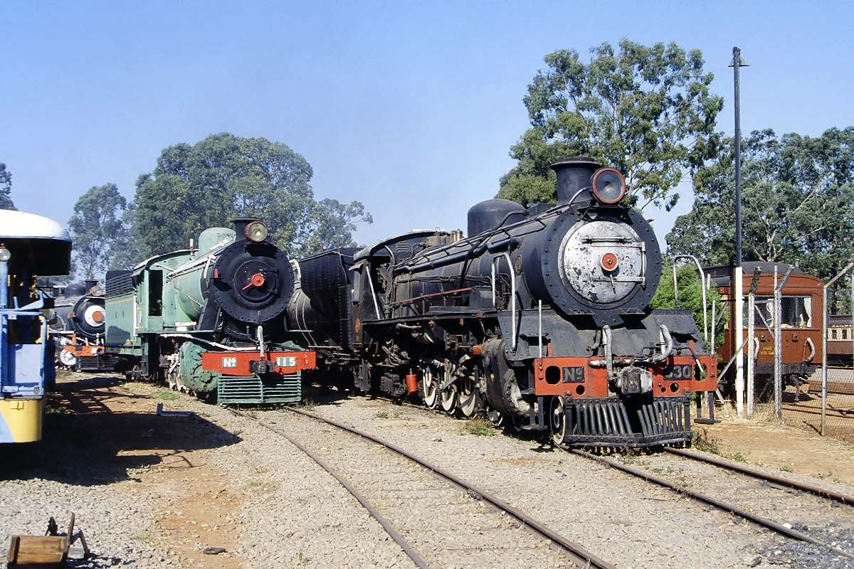 At the Zimbabwe National Railway Museum. No 115 a 9B class built by North British Locomotive Co in 1917 with manufacturer No 21478. Alongside, the 19th class No 330 built by Henschel in 1952 with manufacturer number 27400. In the background 11th class No 127.